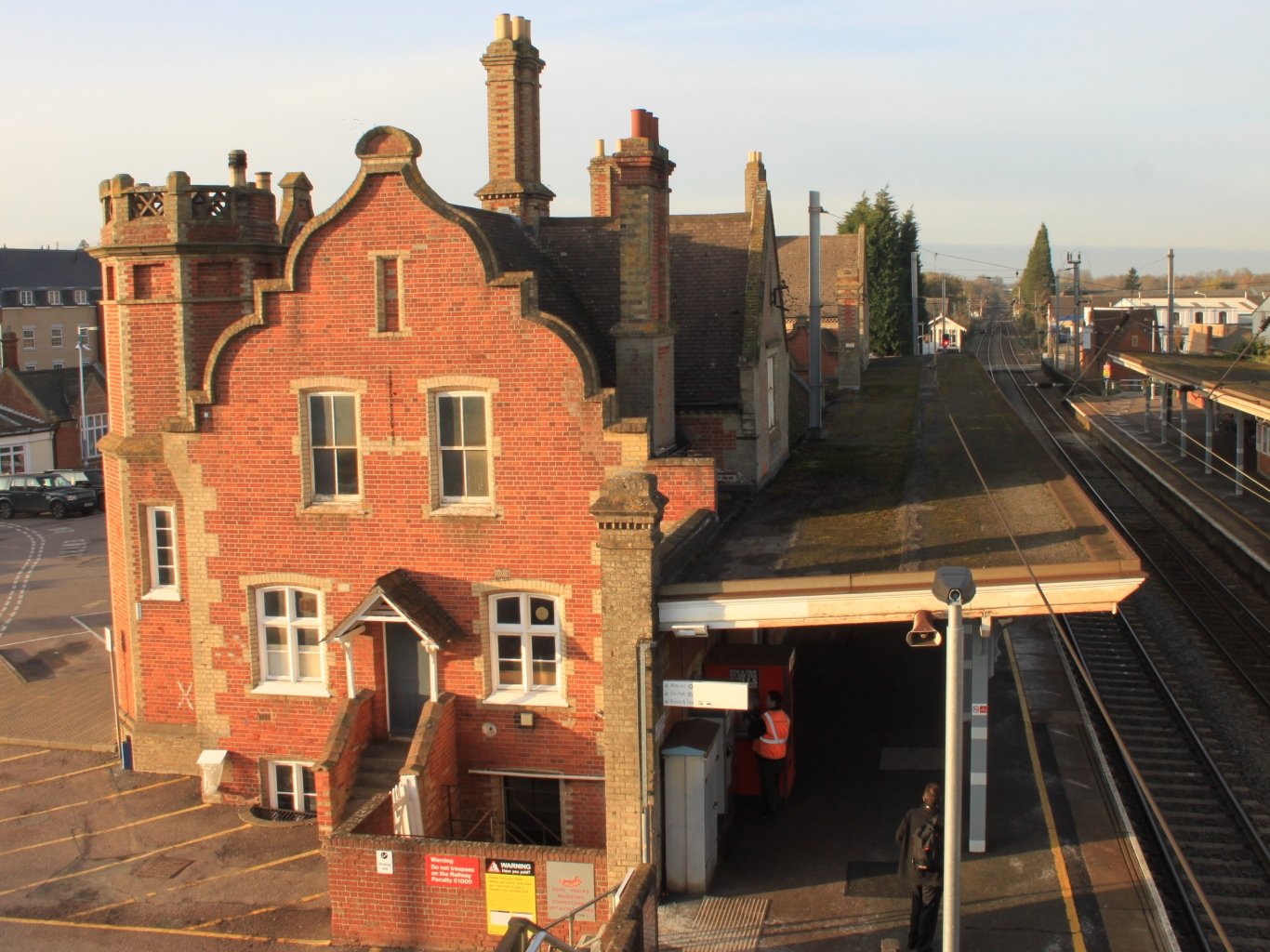 A view of Stowmarket railway station, Suffolk, looking down the Great Eastern Main Line towards Norwich.